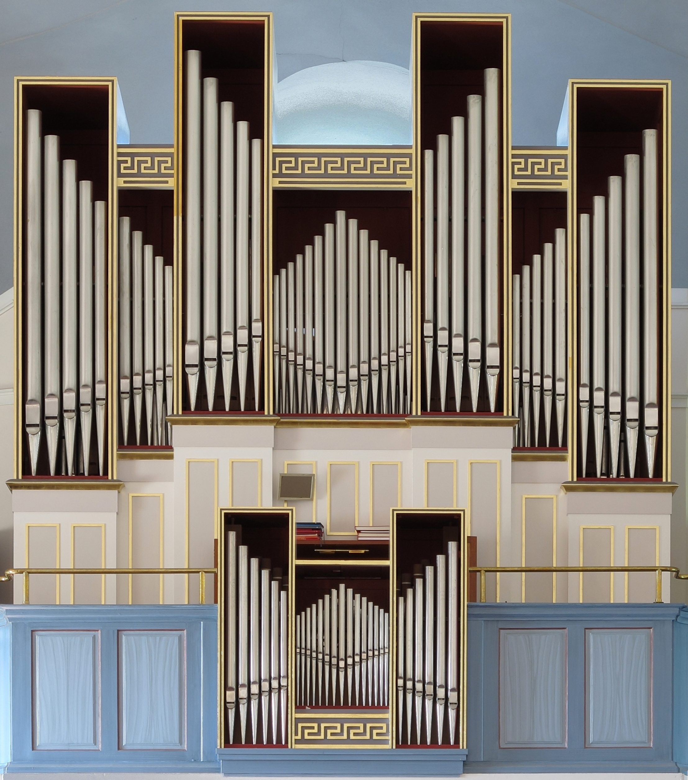 Church in Bjursås. Dalarna, Sweden. Organ. The image is a composite of two exposures merged in .